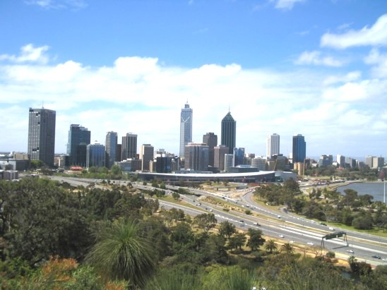 City of Perth overlooked from Kings Park.